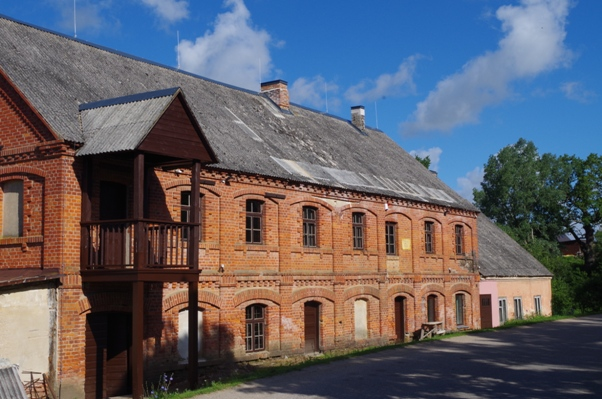 Nuotrauka daryta nuo kelio puses, 2016-05-27